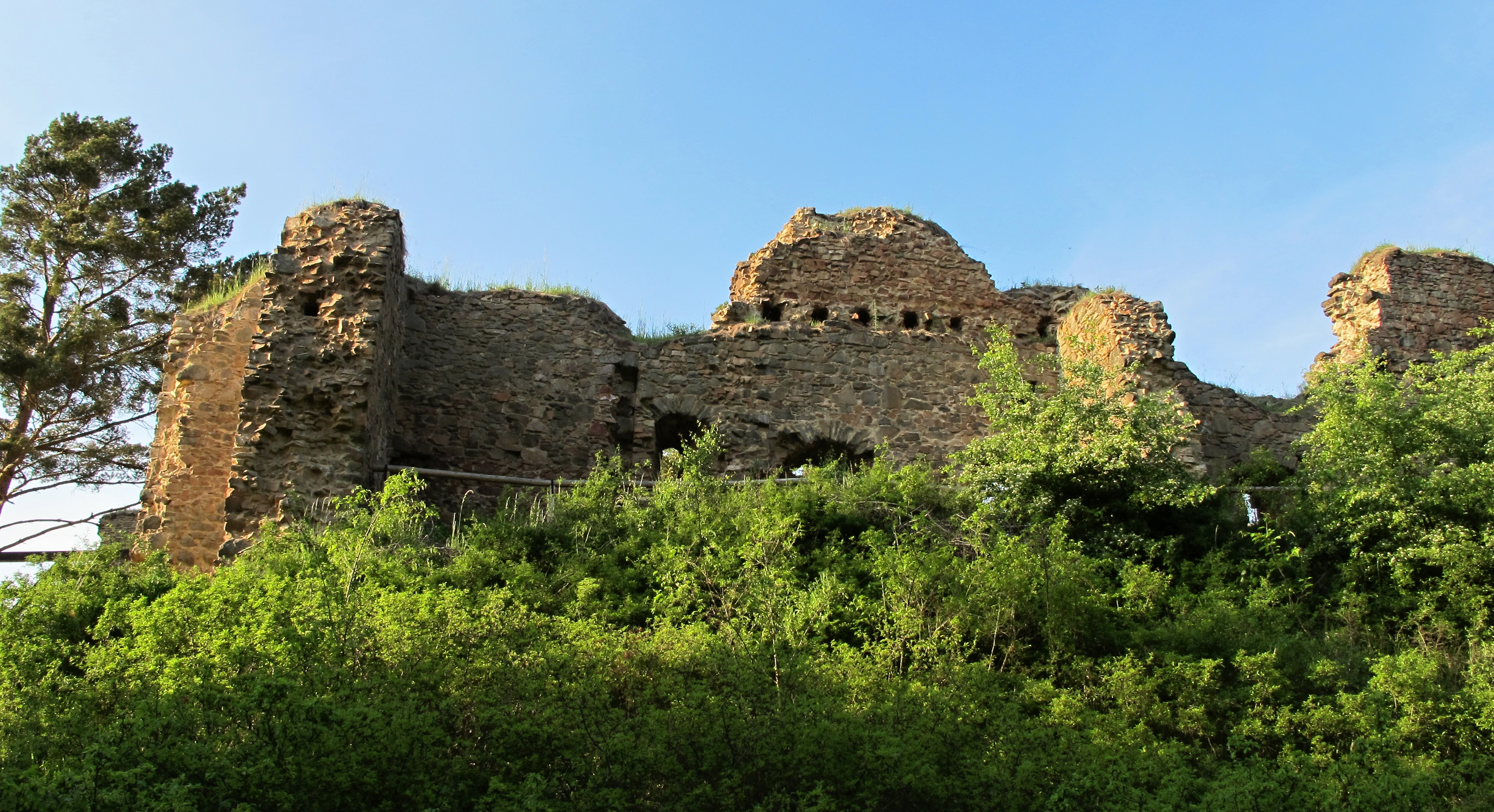 ruins of Vrškamýk Castle near Kamýk nad Vltavou, Příbram District